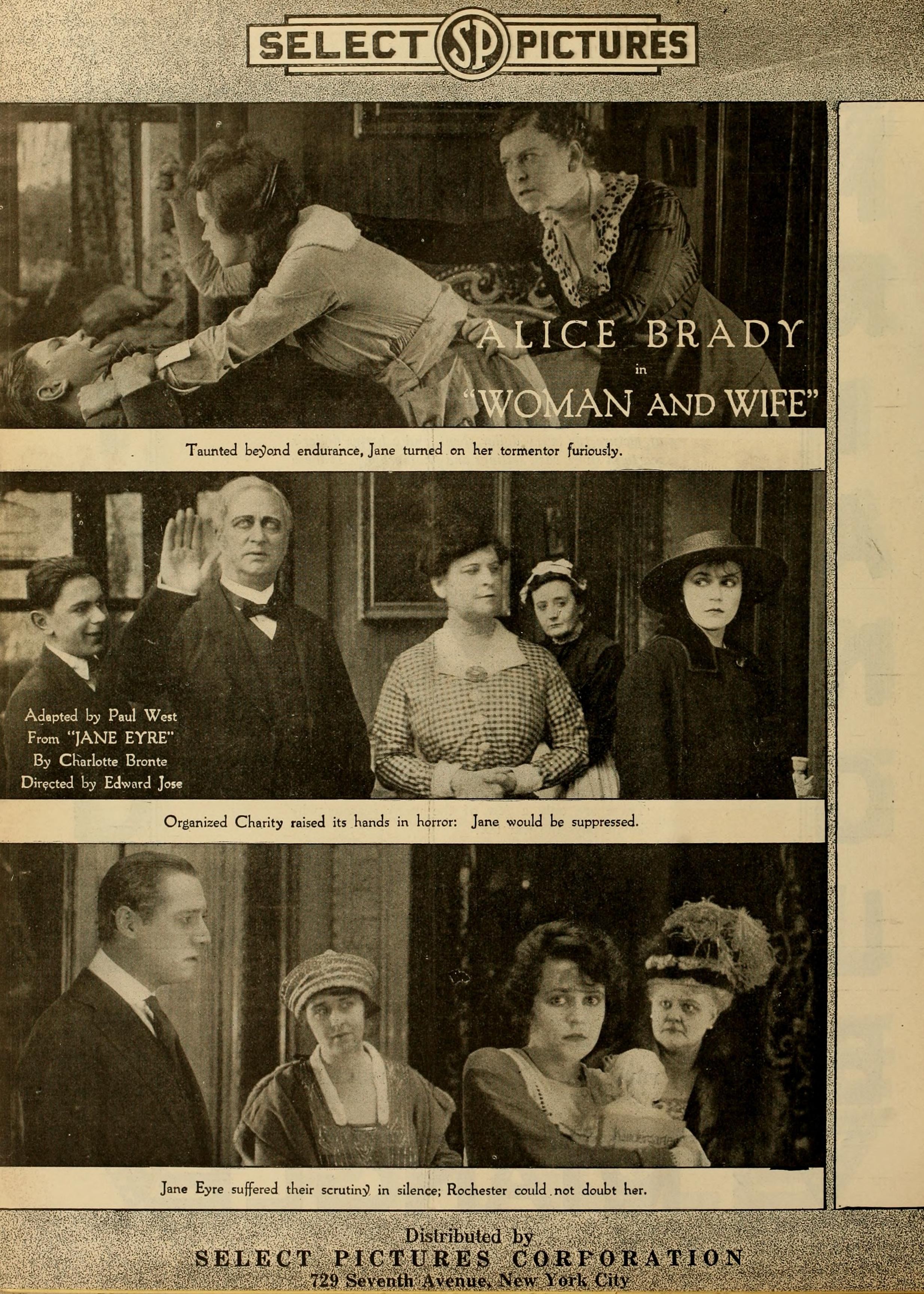 Advertisement in Moving Picture World, Jan 1918 for the film Woman and Wife (1918).